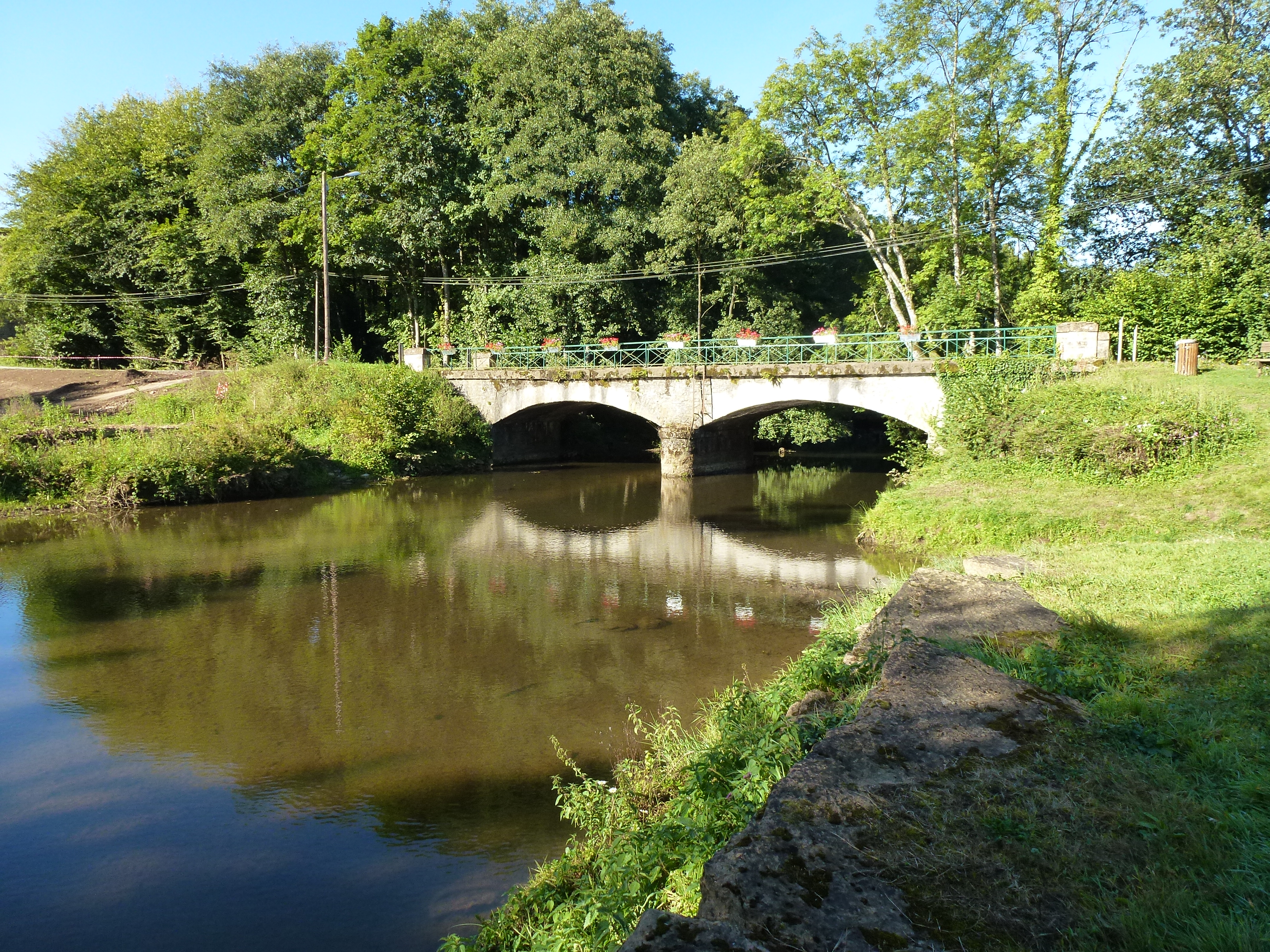 Murtin-et-Bogny (Ardennes) pont sur la Sormonne